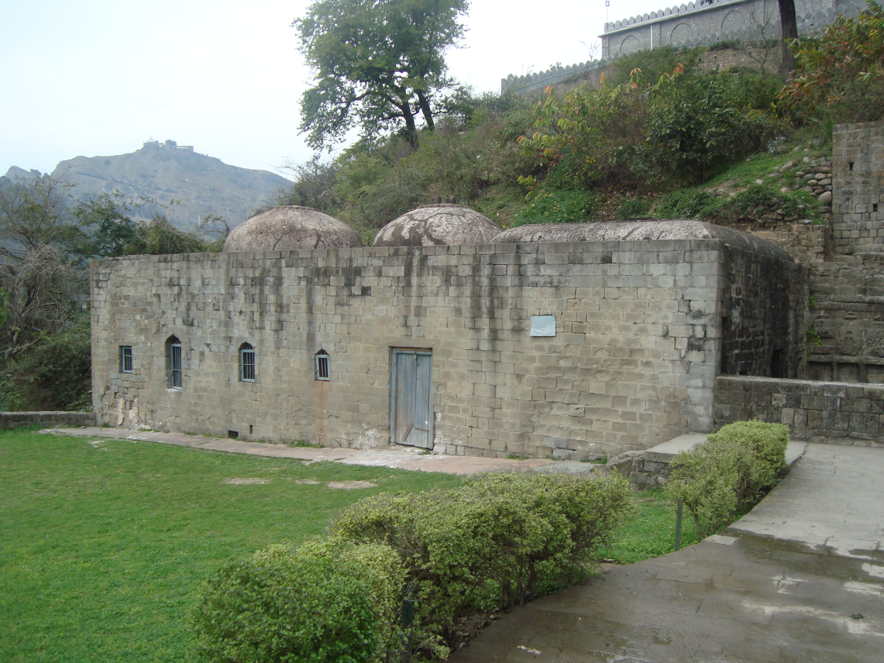 Structure adjoining pond near entrance of Kangra Fort